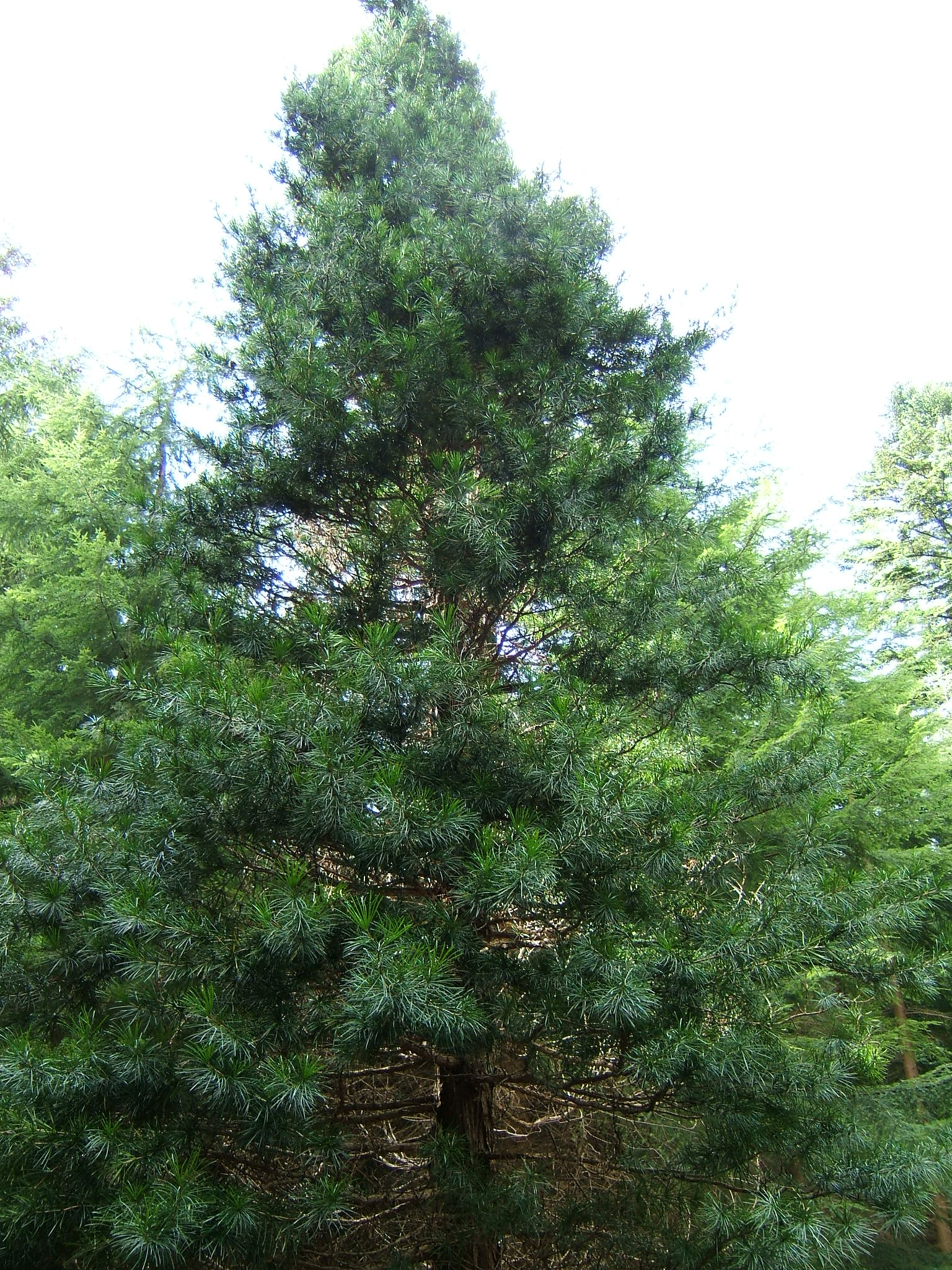 Sciadopitys verticillata, cultivated at Kyloe Woods, Northumberland, UK